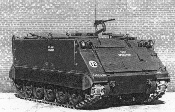 M113 Armored Personnel Carrier prototype number "12" with "13A889" marked on its side plate and "TEST OPERATION" on its frontal armor plate